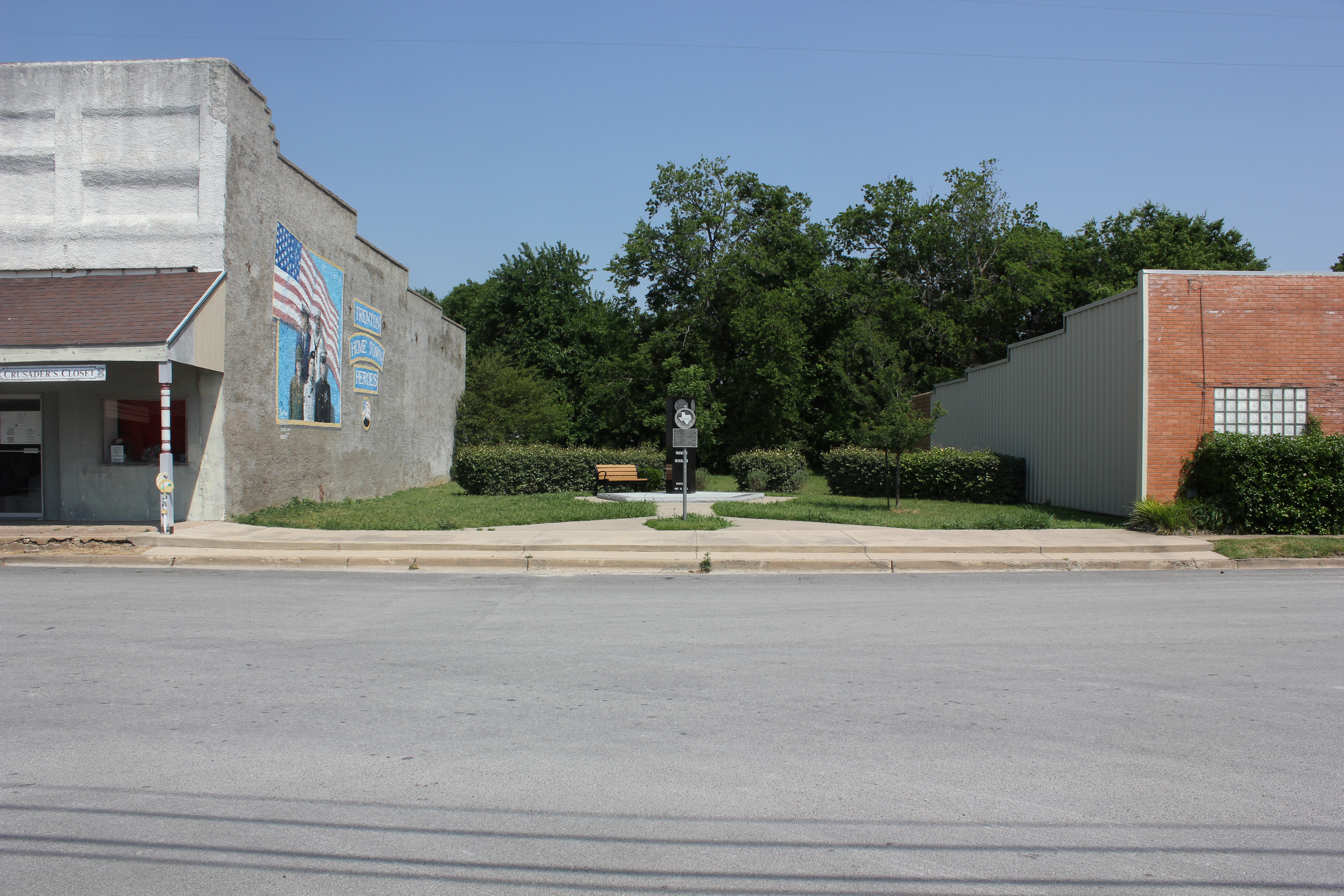 Y.B. Reed Building Marker Vicinity, Trenton, Texas